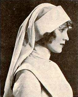 Still of Mary Miles Minter from the American film Nurse Marjorie (1920), page 3315 of the April 10, 1920 Motion Picture News.